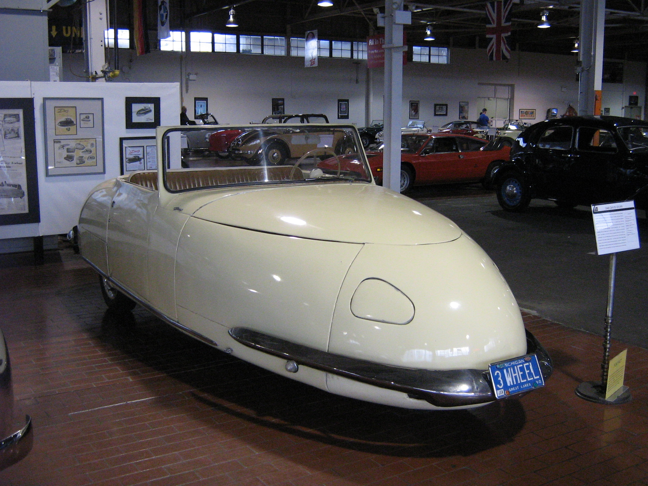 1948 Davis Divan made by Davis Motorcar